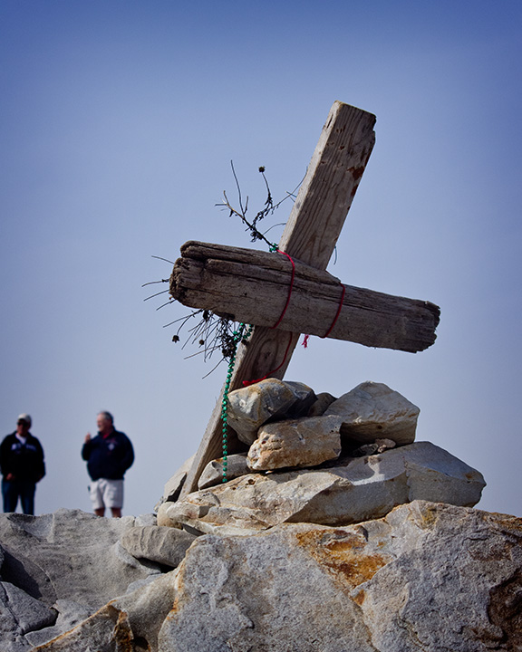 Wooden cross placed among the rocks at the bottom of the seawall in Galveston